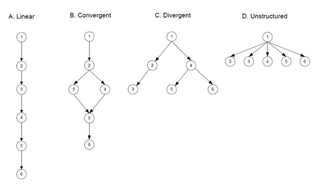 model ahm